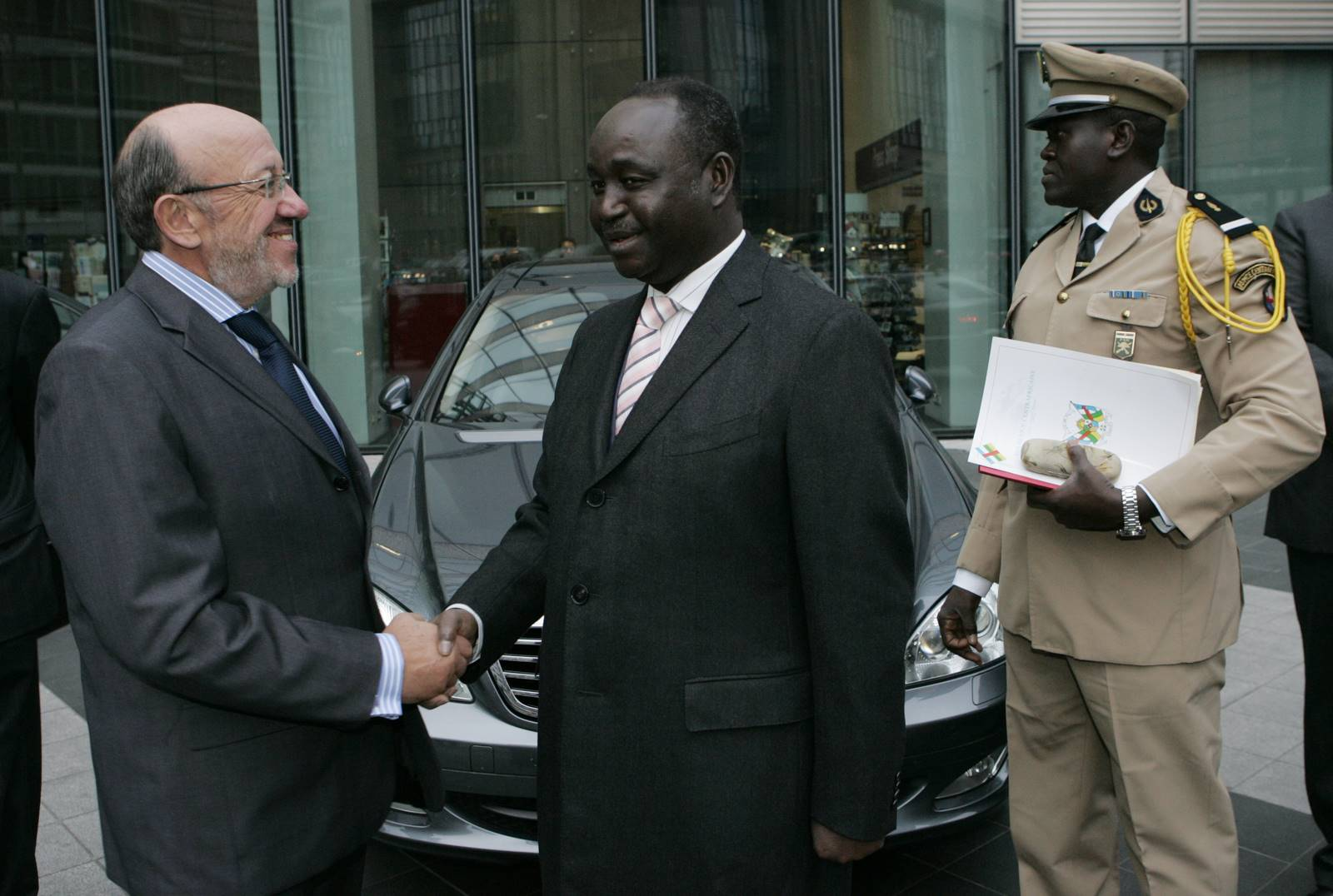 Louis Michel(left) the European Commissioner for Development Aid and François Bozize (middle) President of the Central African Republic. Bozize was visiting Brussles to get aid. Credits: UNDP